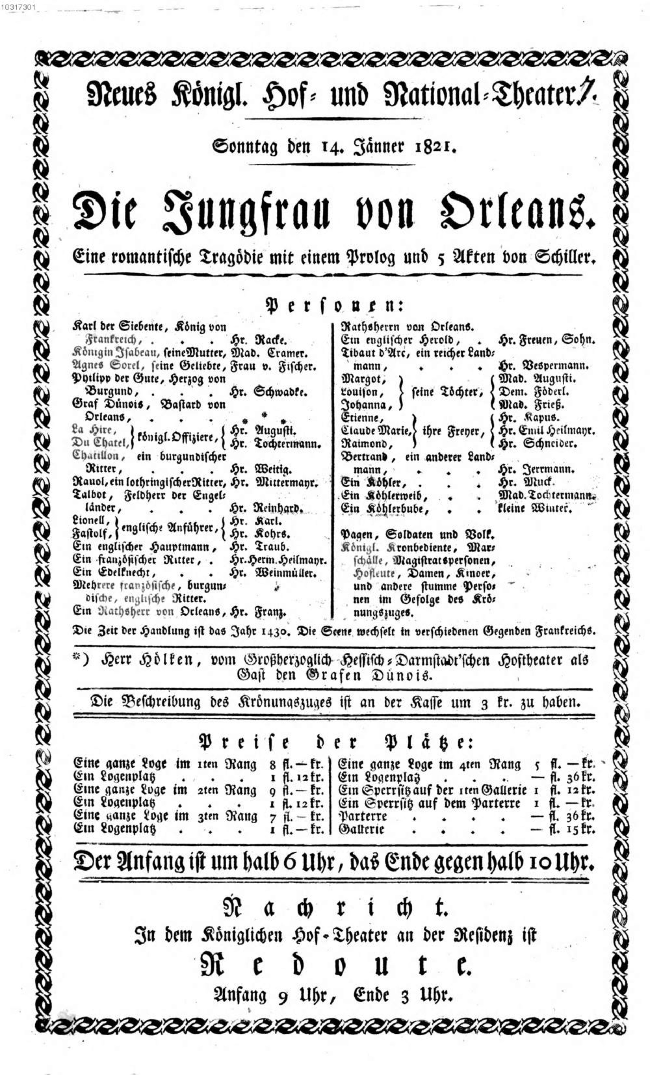 January 14, 1821 playbill from the Bavarian National Theatre for The Maid of Orleans by Friedrich Schiller